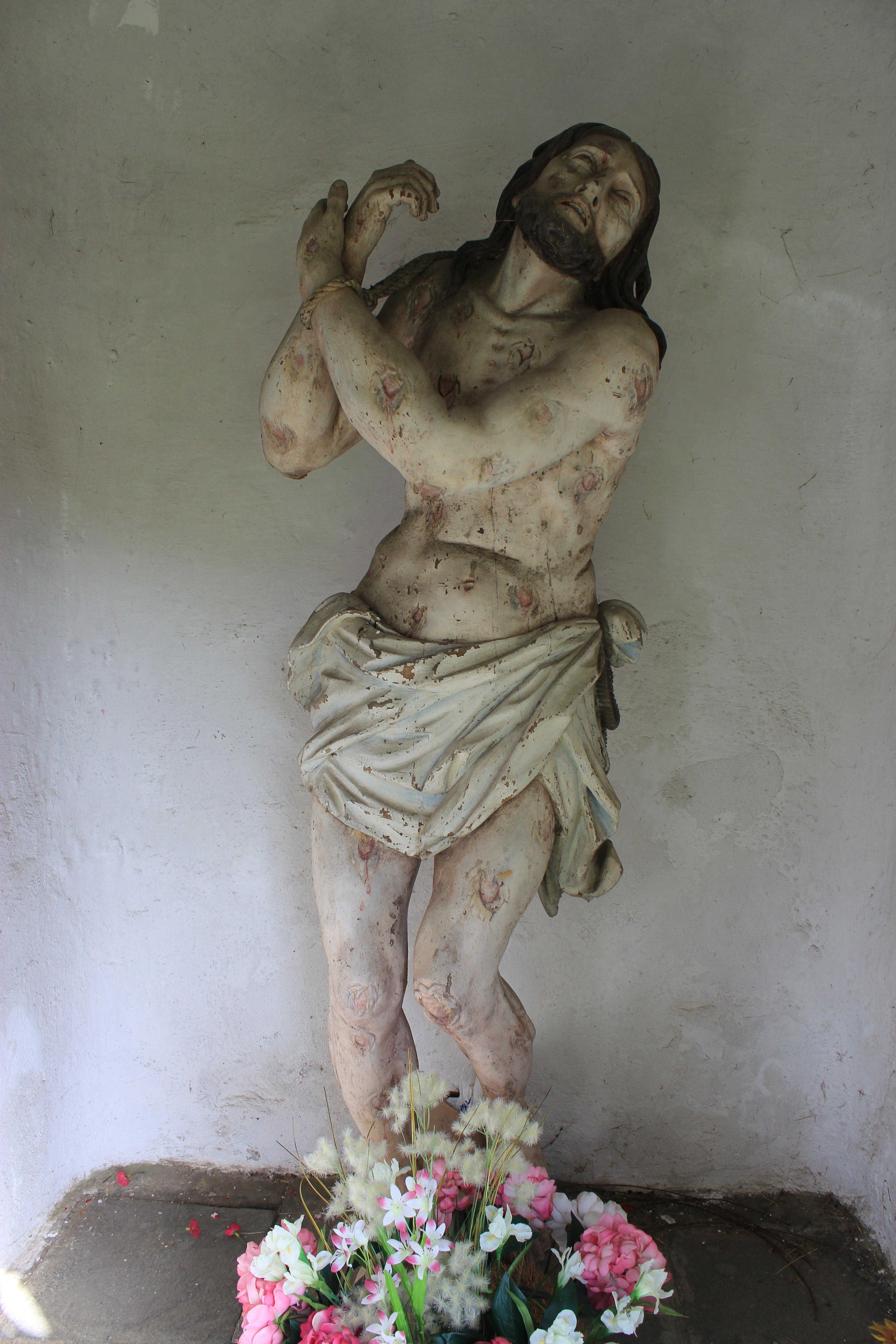 Station of cross chapel in Sankt Veit an der Glan - Man of sorrow